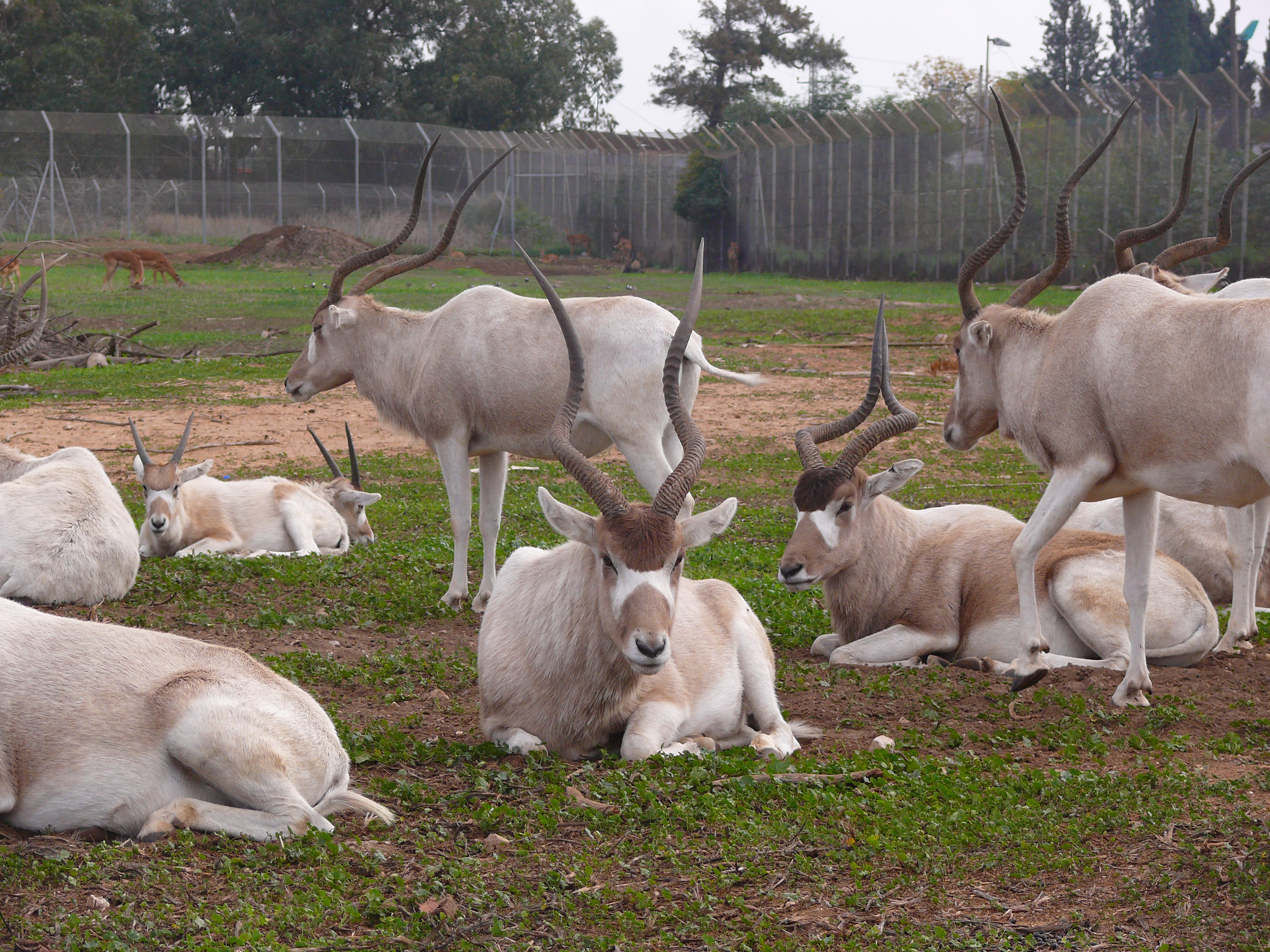 Addax nasomaculatus, Safari Ramat Gan, Israel